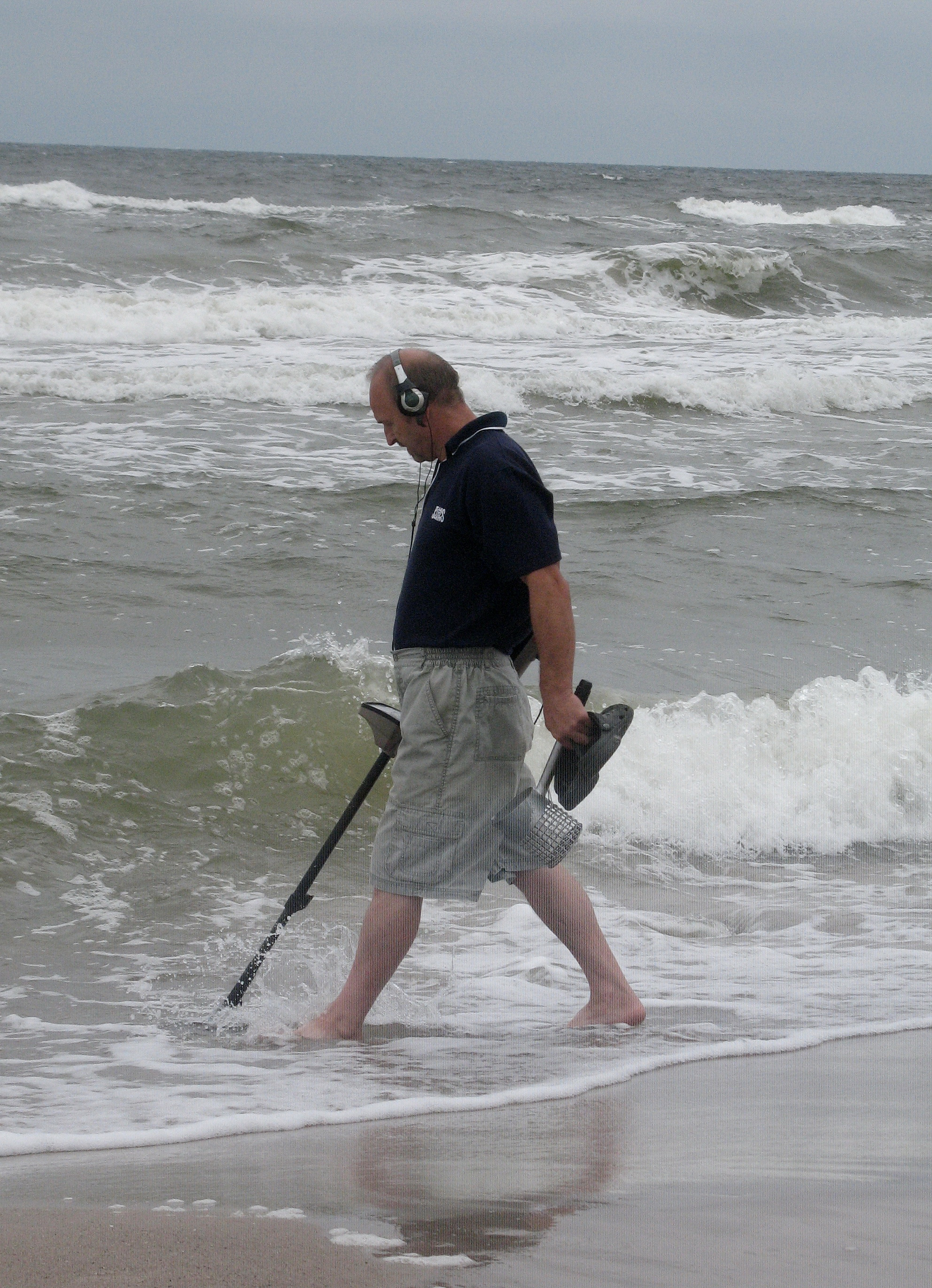 Treasure hunt on the Baltic seaside